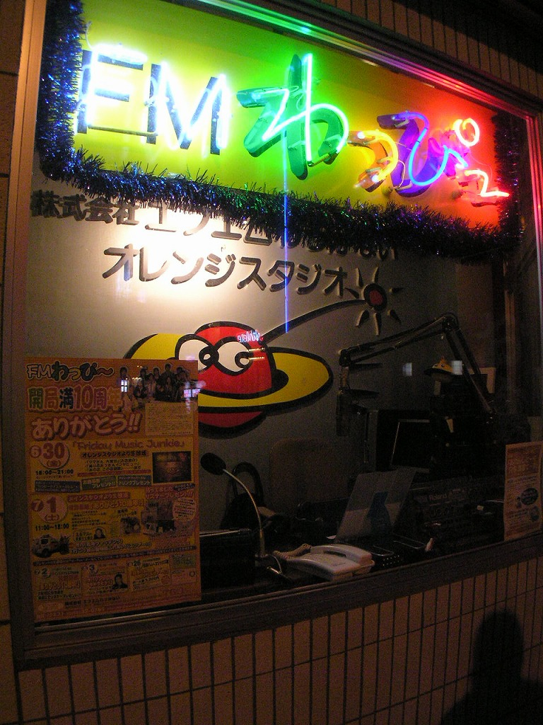 FM-WAKKANAI エフエムわっかない